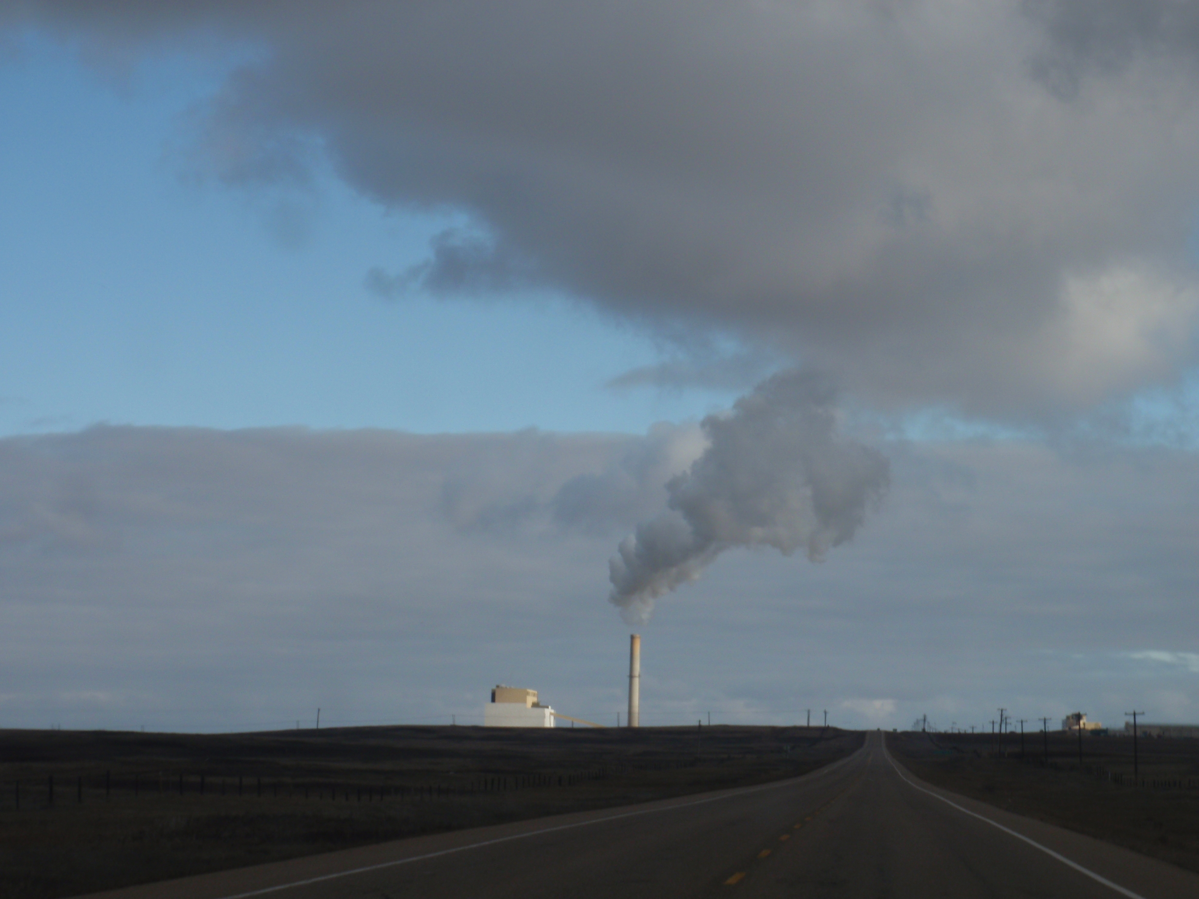 The 760-MW Sheerness coal generating station, located southeast of Hanna, Alberta (Canada).